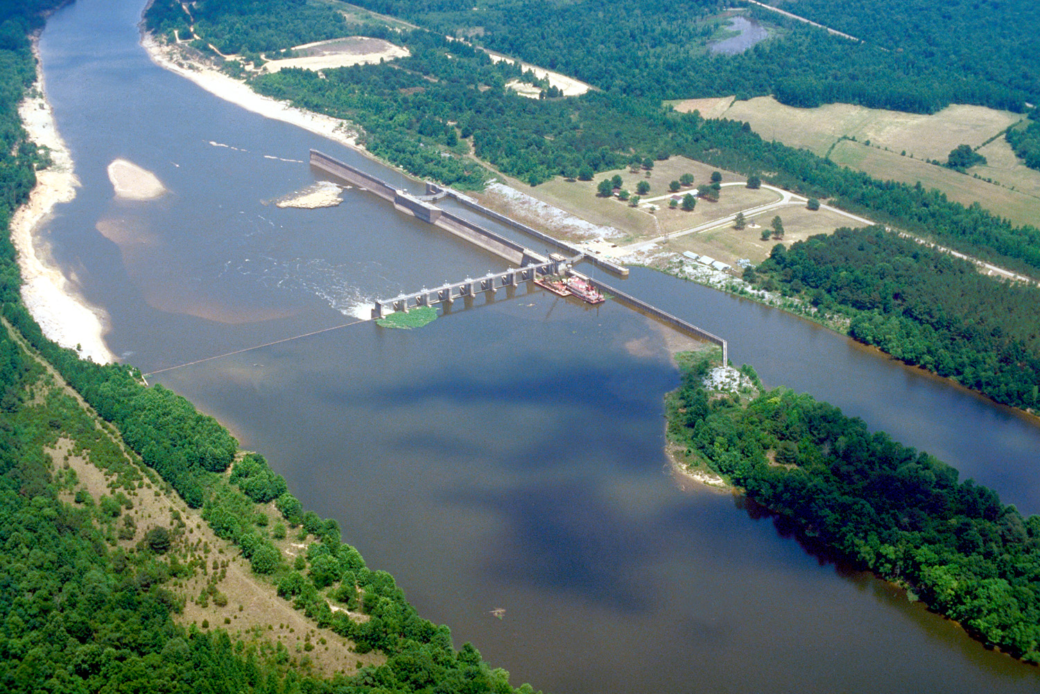 Aerial view of Coffeeville Lock and Dam on the Tombigbee River, spanning the border between Choctaw and Clarke Counties near Coffeeville, Alabama, USA. View is downriver to the east. The U.S. Army Corps of Engineers constructed the dam and lock on the river to provide a nine-foot navigation channel. Coffeeville Lock and Dam is the last lock and dam down the Tombigbee River (or the first, if travelling up the Tombigbee or Black Warrior River). There are no locks and dams between Coffeeville and the Gulf of Mexico.